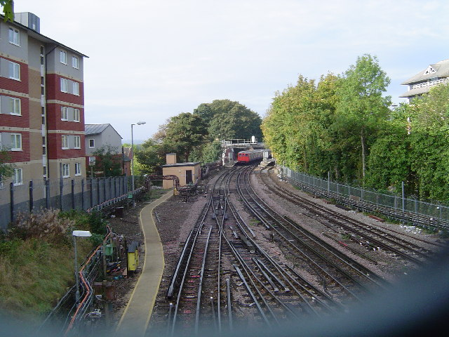 Rickmansworth Station. A view taken from the footbridge east of the station showing a northbound Metropolitan Line train about to depart for Amersham (and for those who collect such things, no, I did not get its number!). (The blurred grey line at the bottom of the image is part of the dense mesh security screen on the footbridge - apologies for this!) These tracks are shared between London Underground and Chiltern Railways. The London Underground trains go to and from Amersham and Baker Street and Aldgate, and the Chiltern Line trains run from London Marylebone to and from Aylesbury.